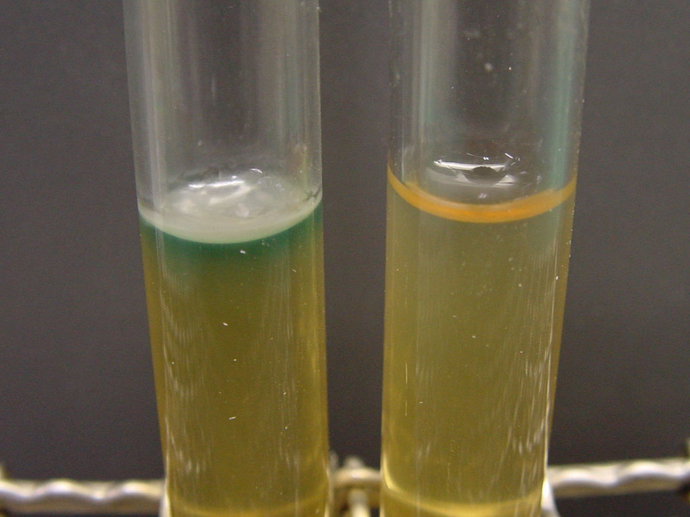 Production of pyocyanin, water-soluble green pigment of Pseudomonas aeruginosa. (left tube) Ps. aeruginosa cultured on heart infusion soft agar medium. The aerobic bacteria grow only on the surface of the medium (forming whitish biofilm) , and water-soluble green pigment diffuses down. (right tube) Uninnoculated medium (as control).